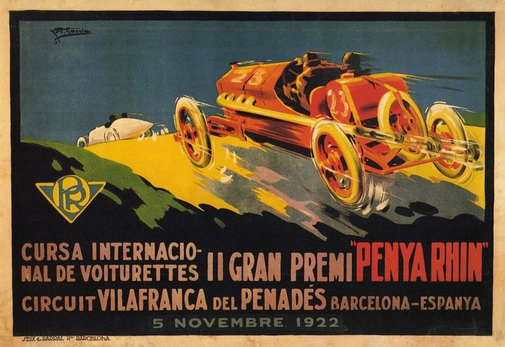 Cartell Gran Premi Penya Rhin al 1922 del Circuit de Vilafranca del Penedès